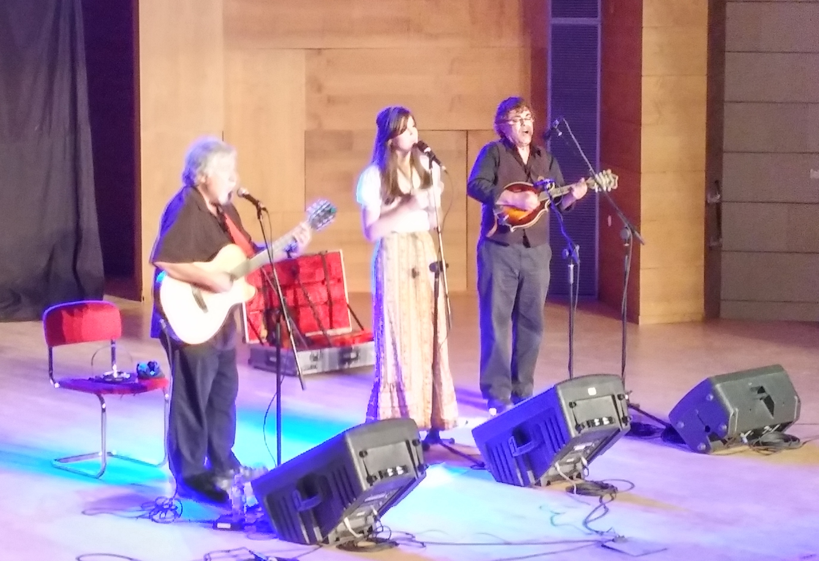 Shay Tochner, Maya Yohana and Yonatan Miller